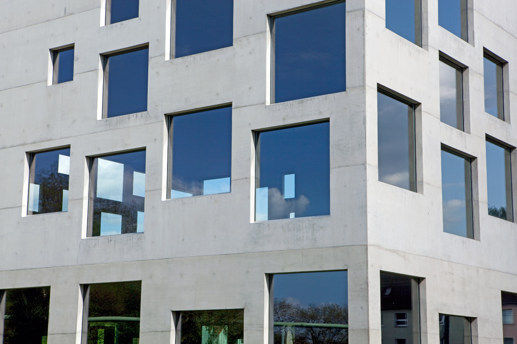 Zeche Zollverein, Essen/Germany, School of Management and Design